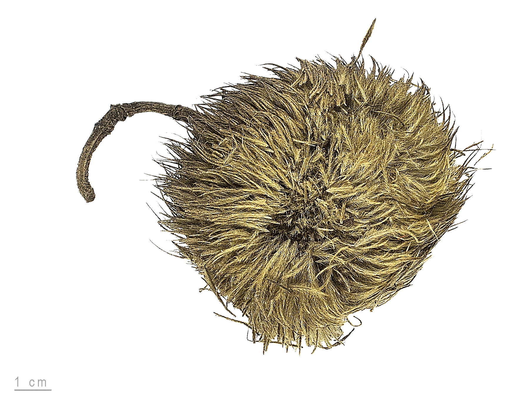 Apeiba tibourbou, fruit